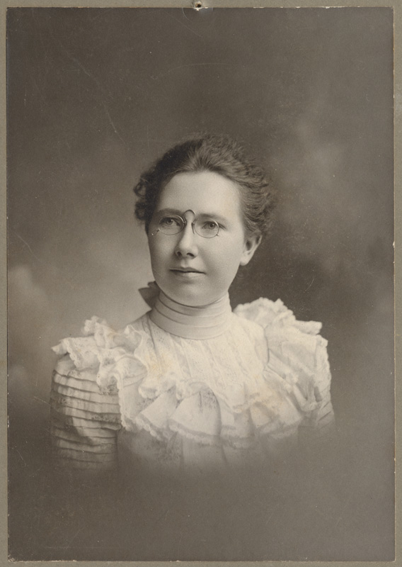 Harriet G. Eddy 1902